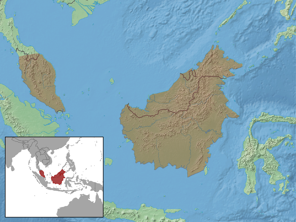 geographic distribution of Myotis ridleyi